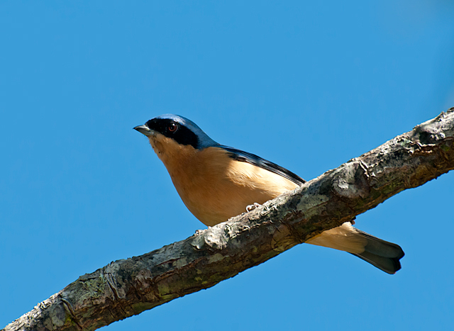 A Fawn-breasted Tanager in Piraju, São Paulo, Brazil.